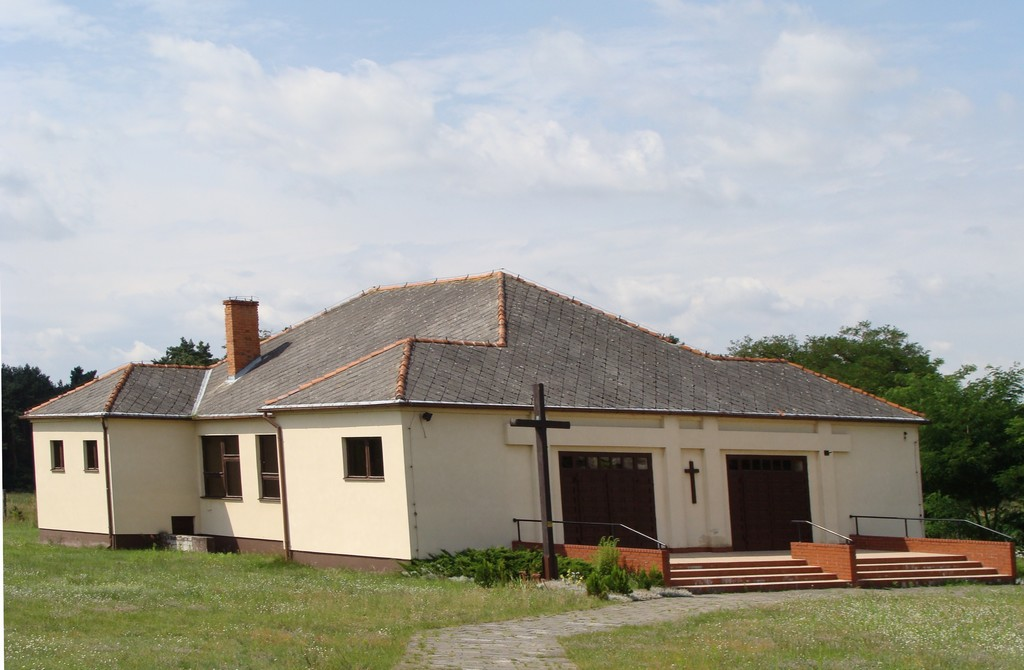 Luciny, church.